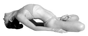 Padma Matsyásana